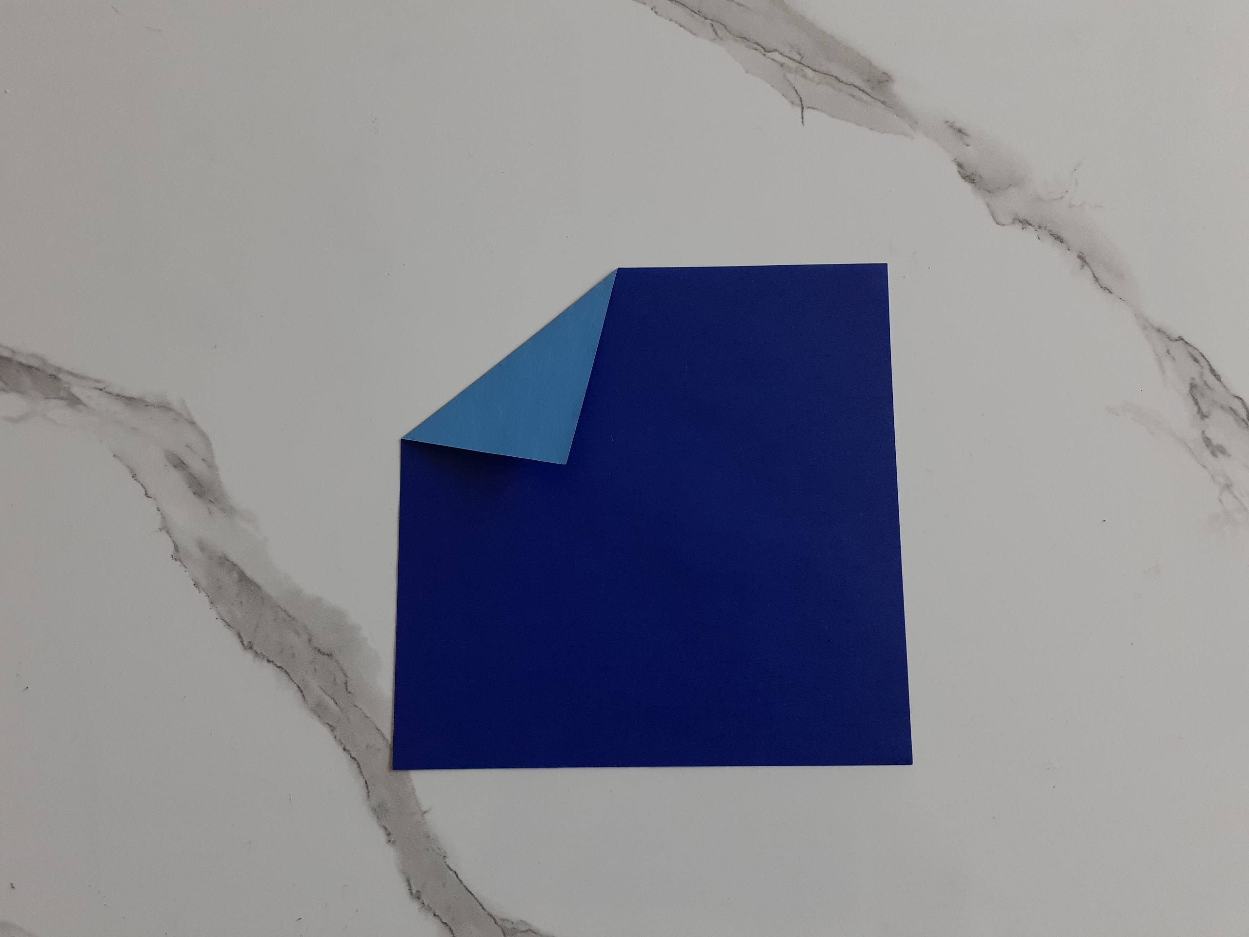 Iiiiiiiiiiiiiiiiiilllllllllllllllll